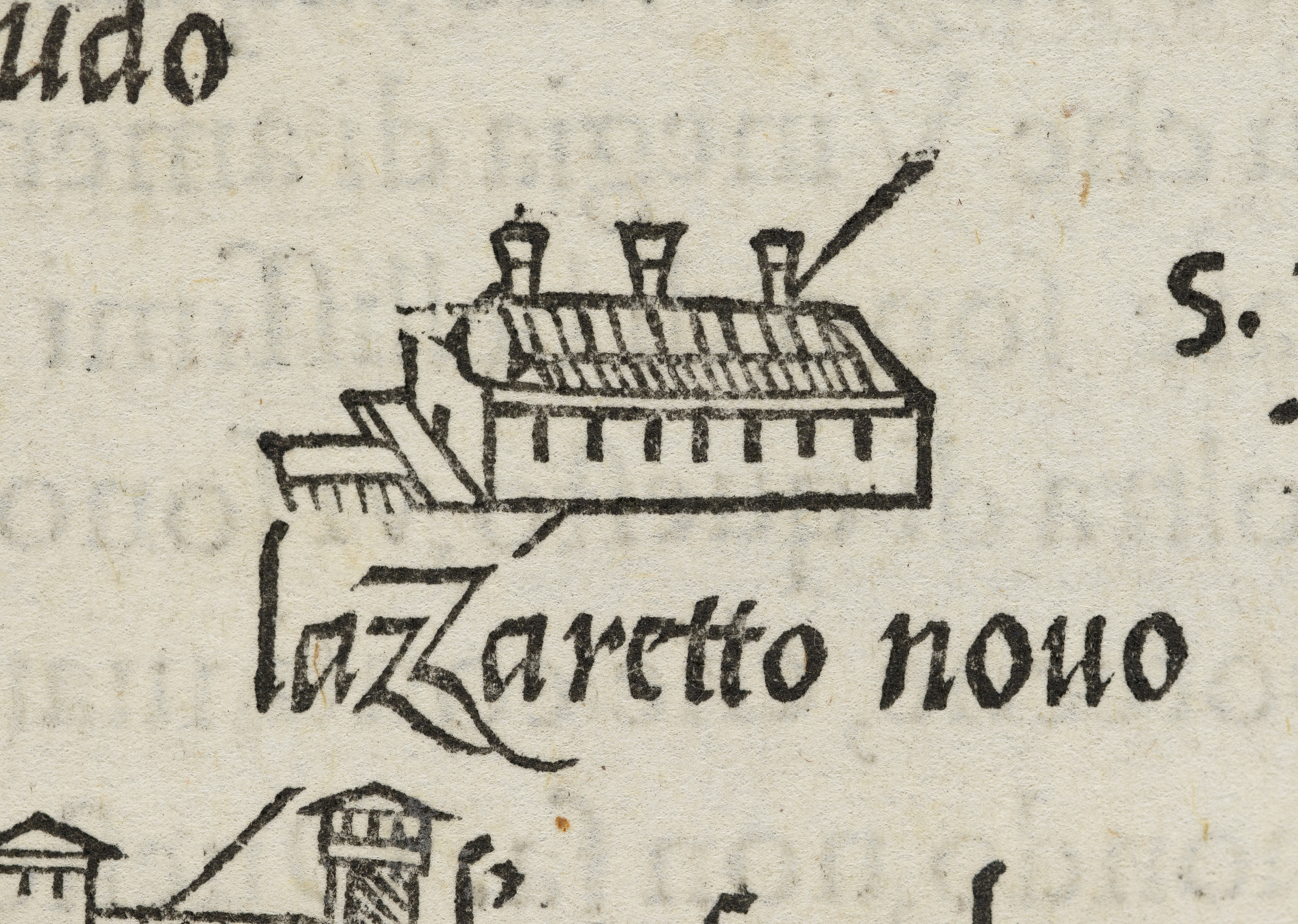 Detail showing the island of Lazzaretto Nuovo, Venice, Italy Rare Books